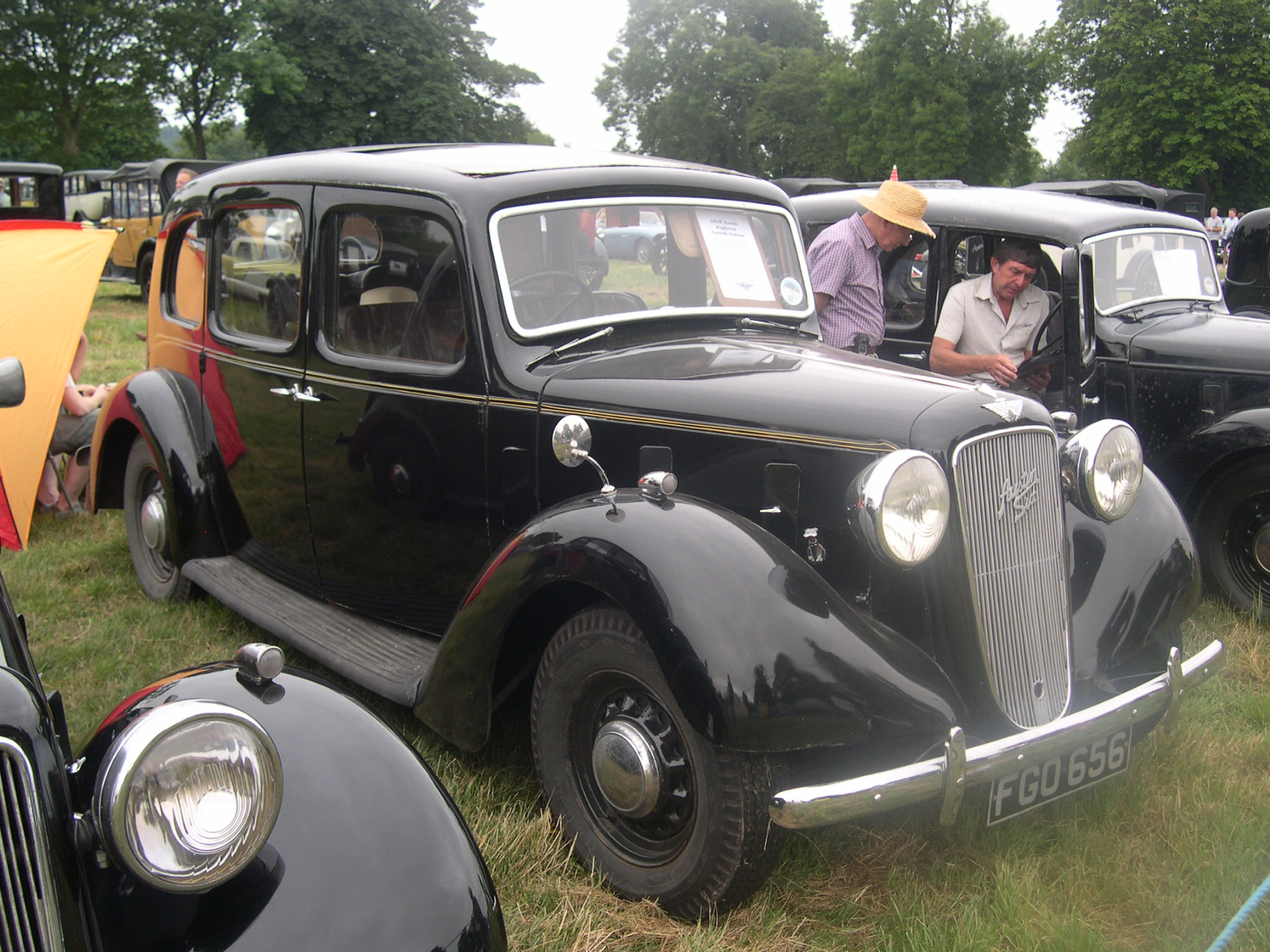 1938 Austin 18/6 Norfolk, first registered 27 October 1938